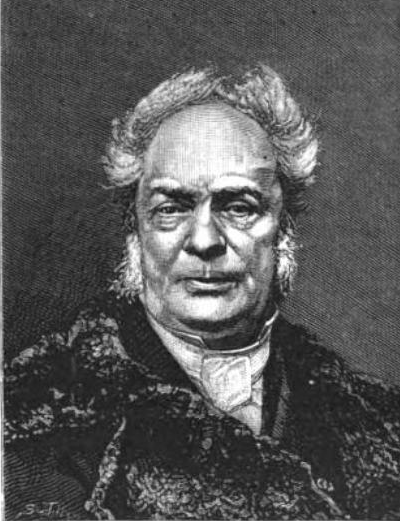 Image of Charles Frédéric Kuhlmann, adapted from a photo, apparently an etching.